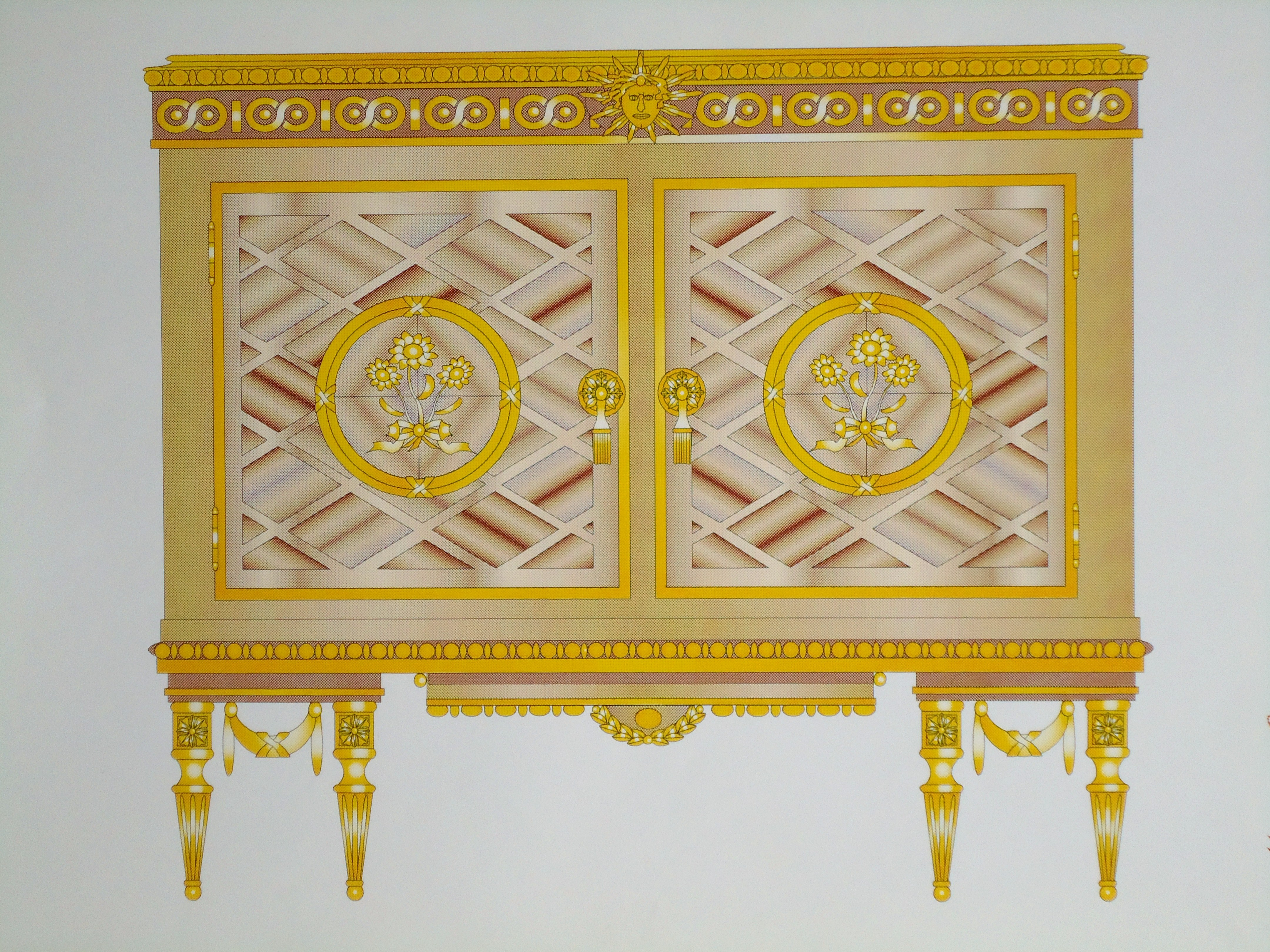 Louis XVI commode. Drawing by computer, using Freehand. 29 x 21 cm. Made by Mauro Cateb